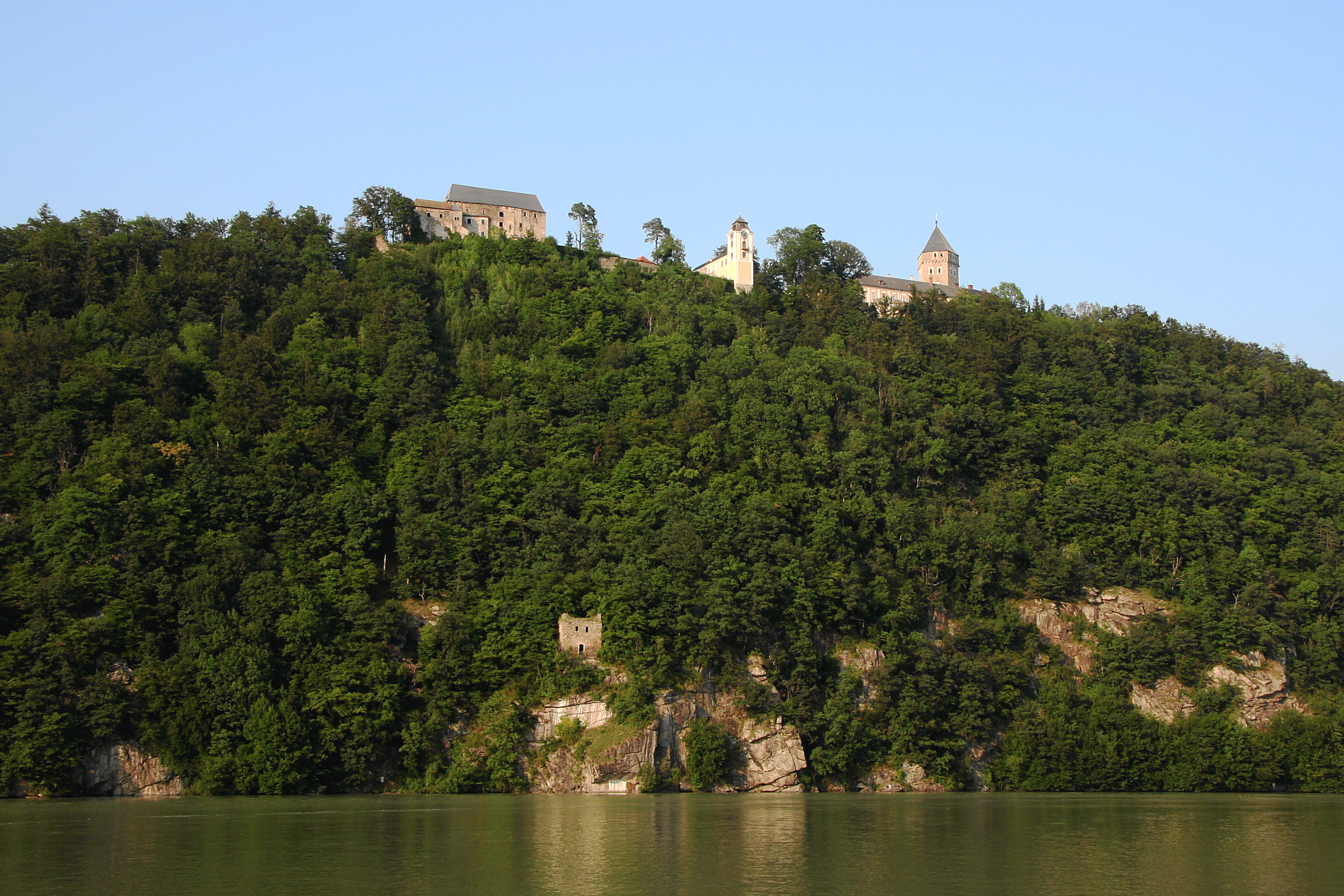 Schloss Neuhaus an der Donau in Upper Austria.